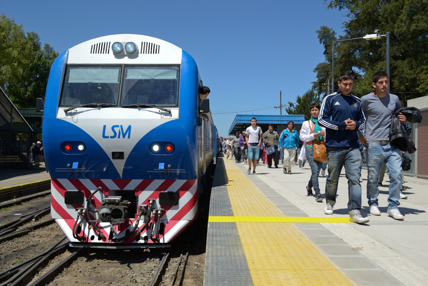 Rolling stock for the San Martin commuter rail in Buenos Aires.